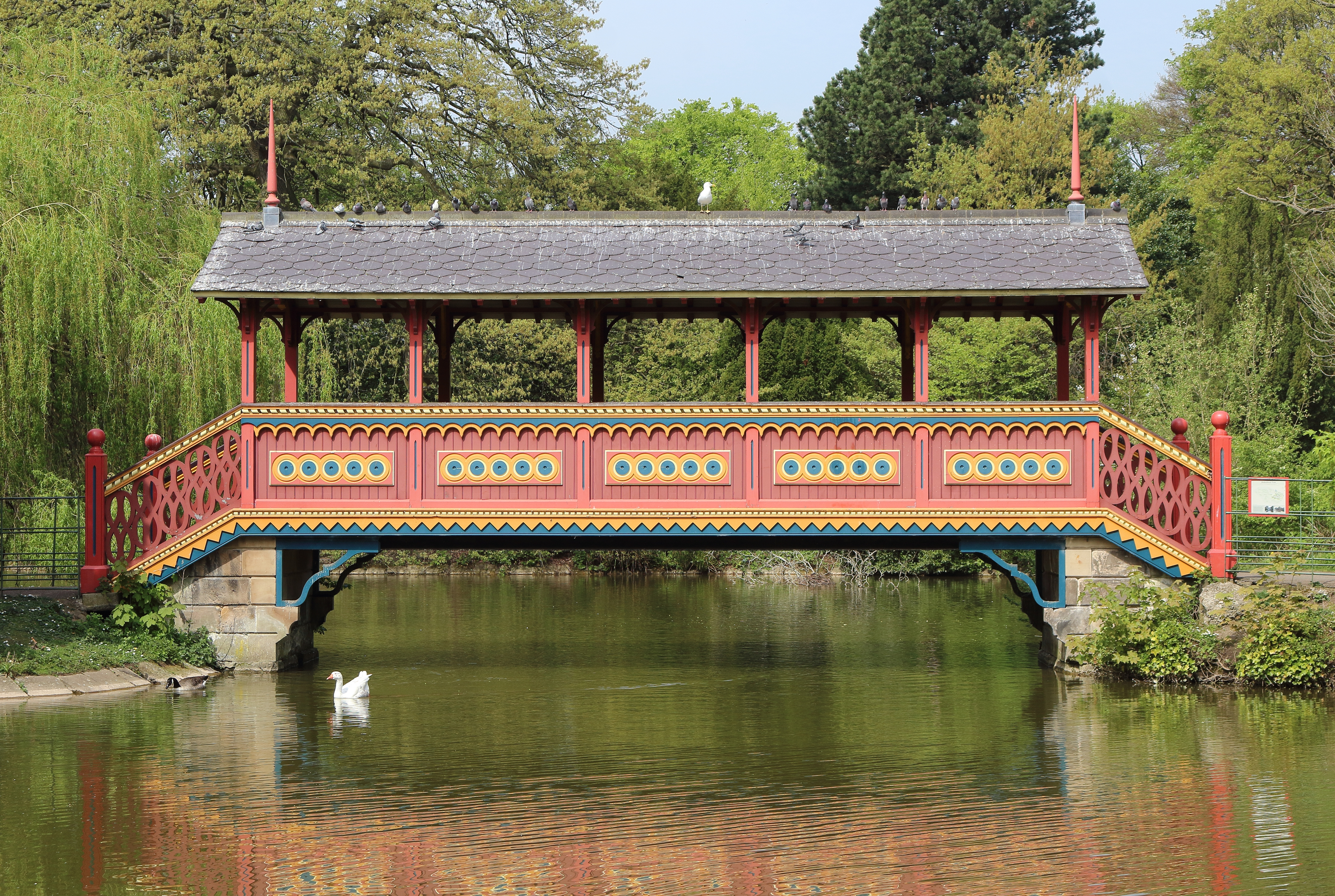 Grade II listed footbridge in Birkenhead Park, view northwest across the lake.